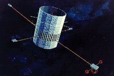 Artistic conception of the IMP-I satellite in space.